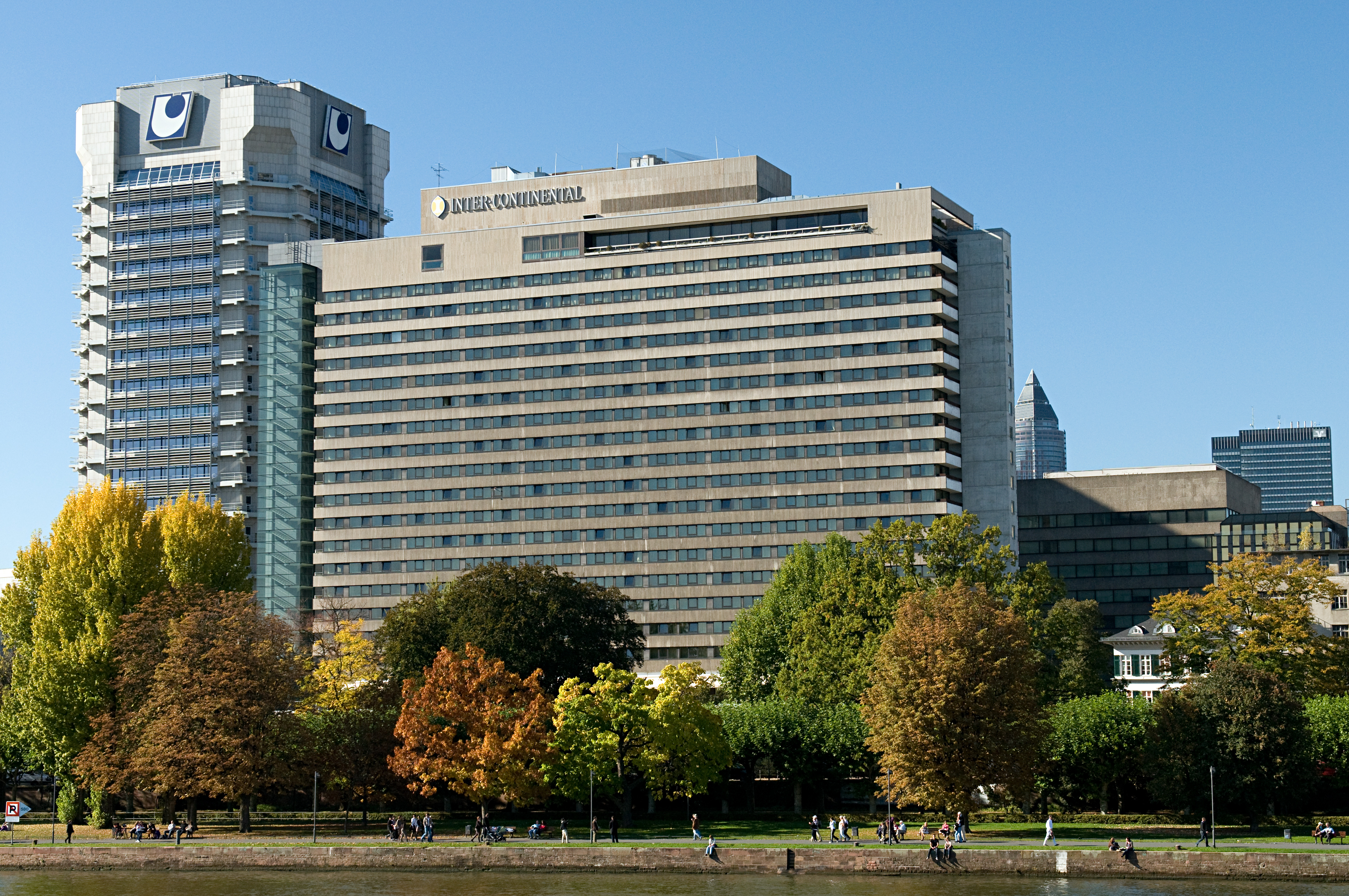 Hotel Intercontinental Frankfurt am Main